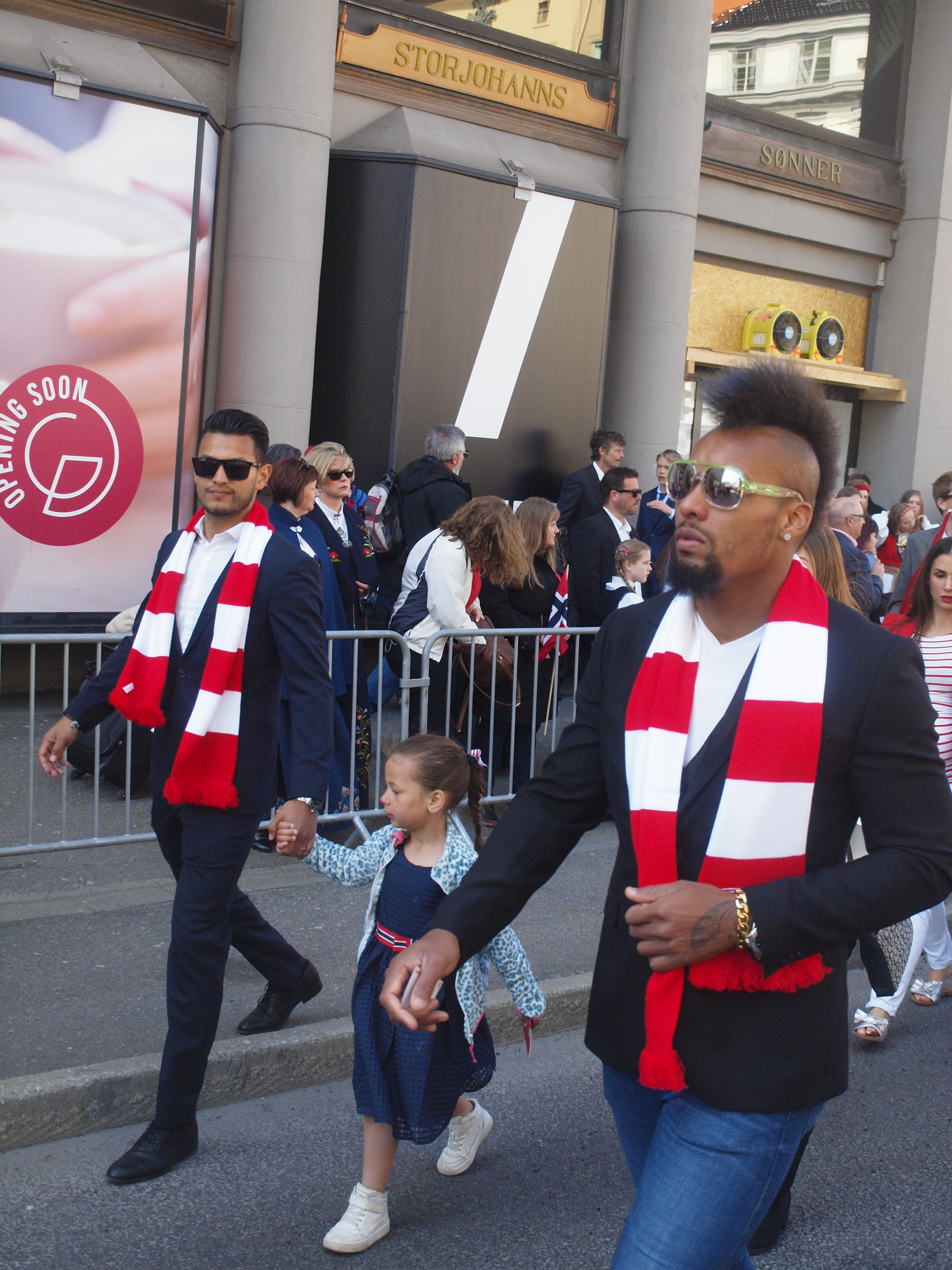 Bismar Acosta on 17th of May Parade in Bergen - 2018.